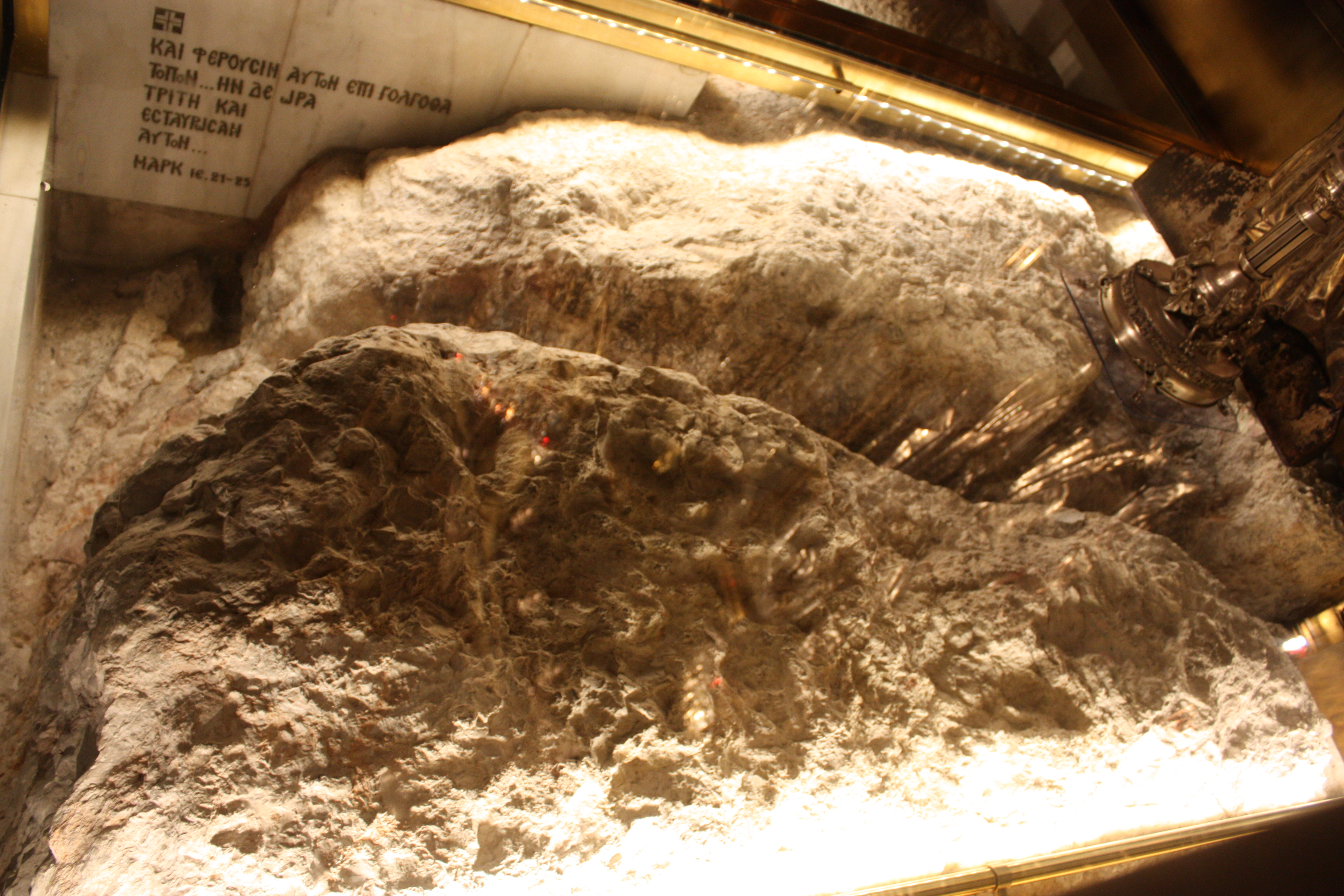 Calvary stone near the 12th station of Via Dolorosa in Golgotha in the Holy Sepulchre, Jerusalem.